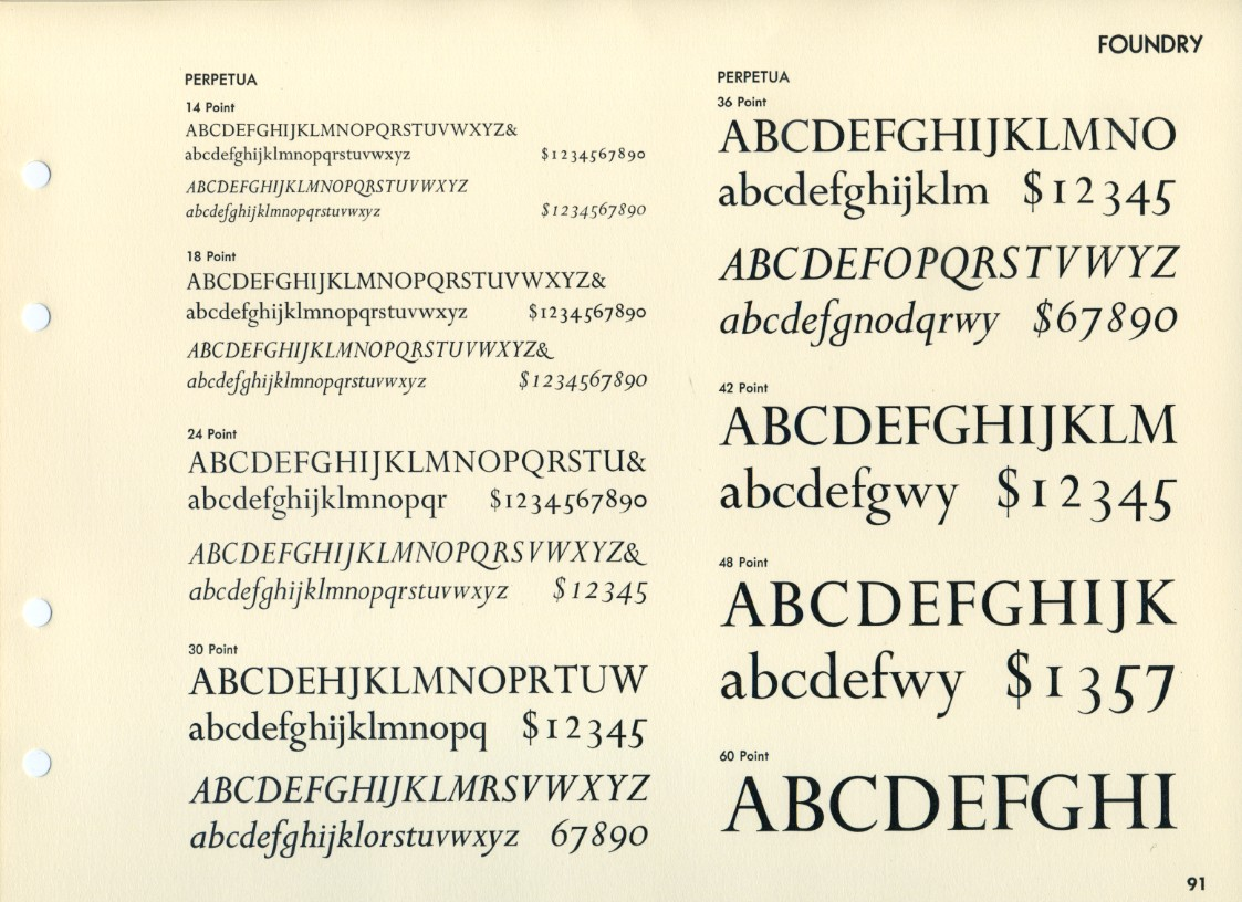 Eric Gill's font Perpetua in metal type.